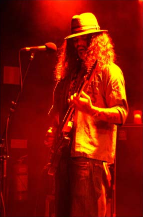 Brant Bjork & the Bros Live Inkonst Sweden May 9th 2007